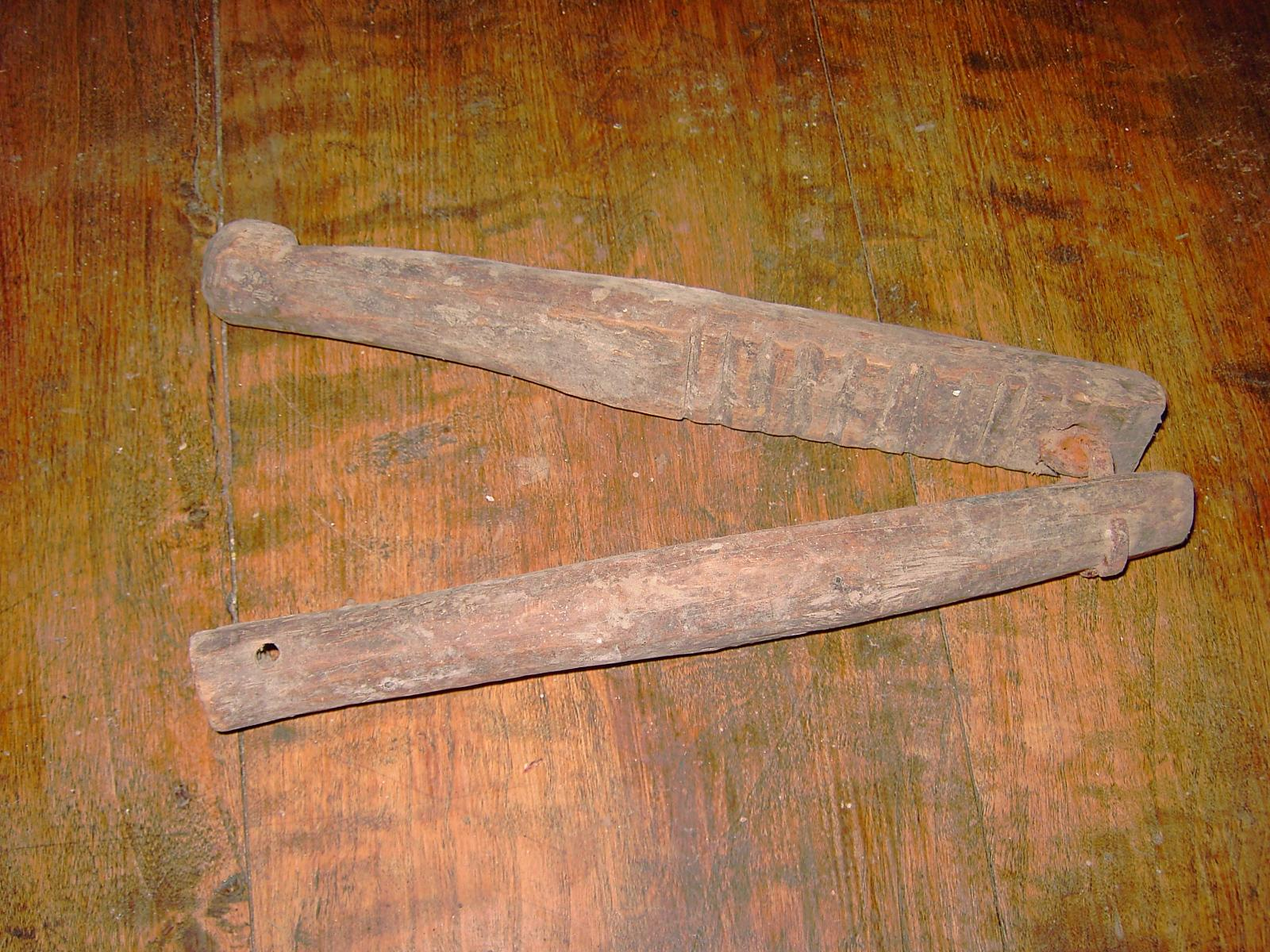 Castration clamp, traditional tool that allowed pressing the joint between the testicles and the body of an animal, strongly obliterating its blood vessels, and thus preventing the animals death by blood lose during and after castration.